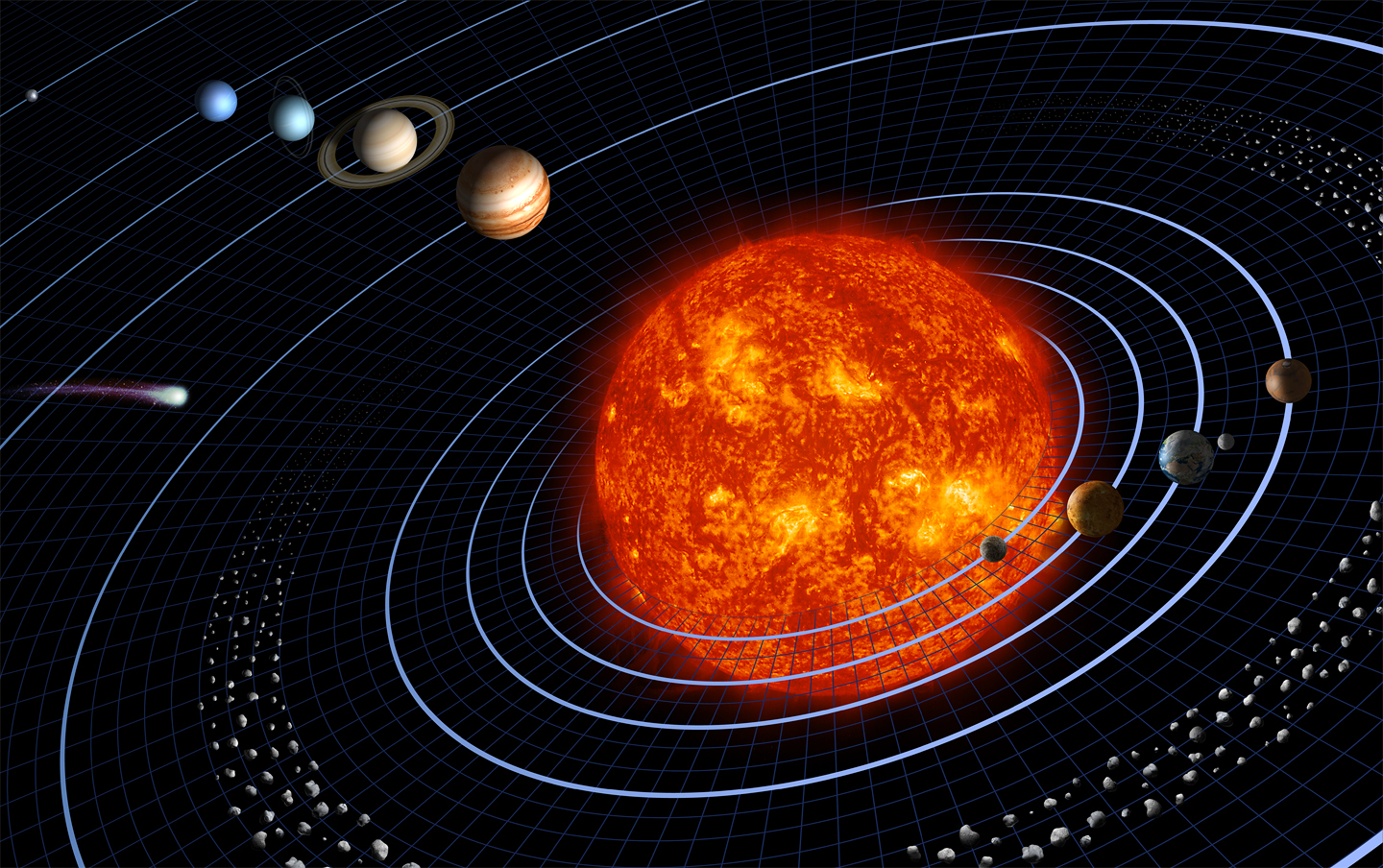 This figure of the Solar System, (not to scale - actually very very far from the real scale - creating a scale image of the solar system with detailed representations of all its major bodies would not likely be feasible - see solar system model ) shows the Sun, the inner planets, asteroid belt, outer planets, Pluto (the largest object in the Kuiper Belt - originally classified as a planet), and a comet.